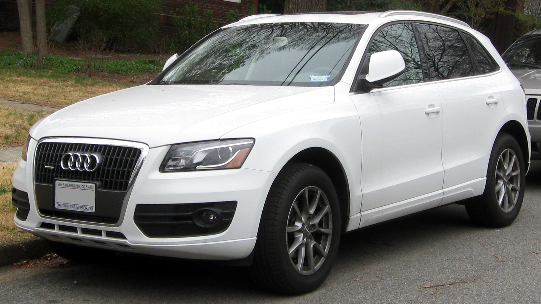 Audi Q5 photographed in Washington, D.C., USA.